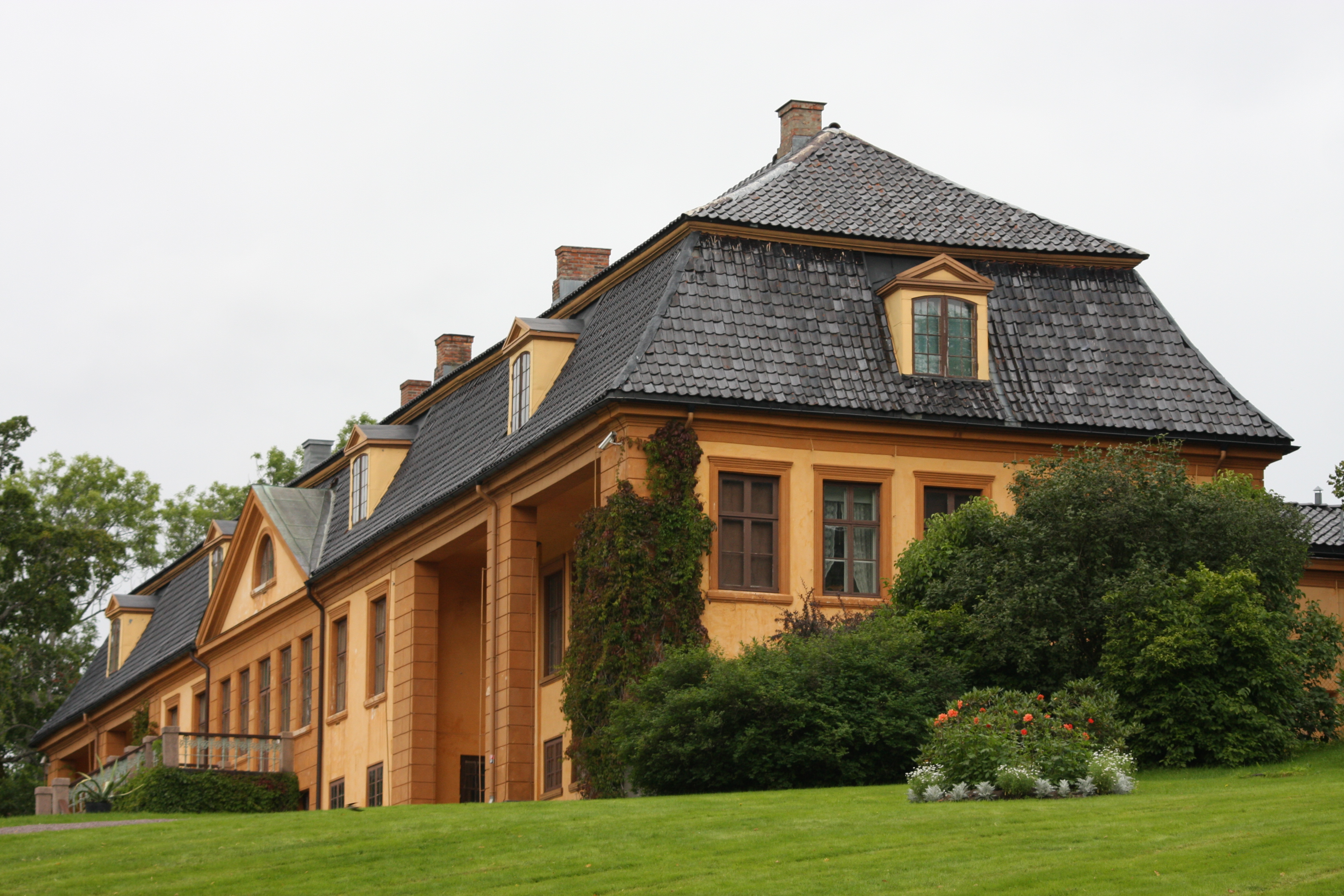 Bogstad manor, Oslo. Norway.